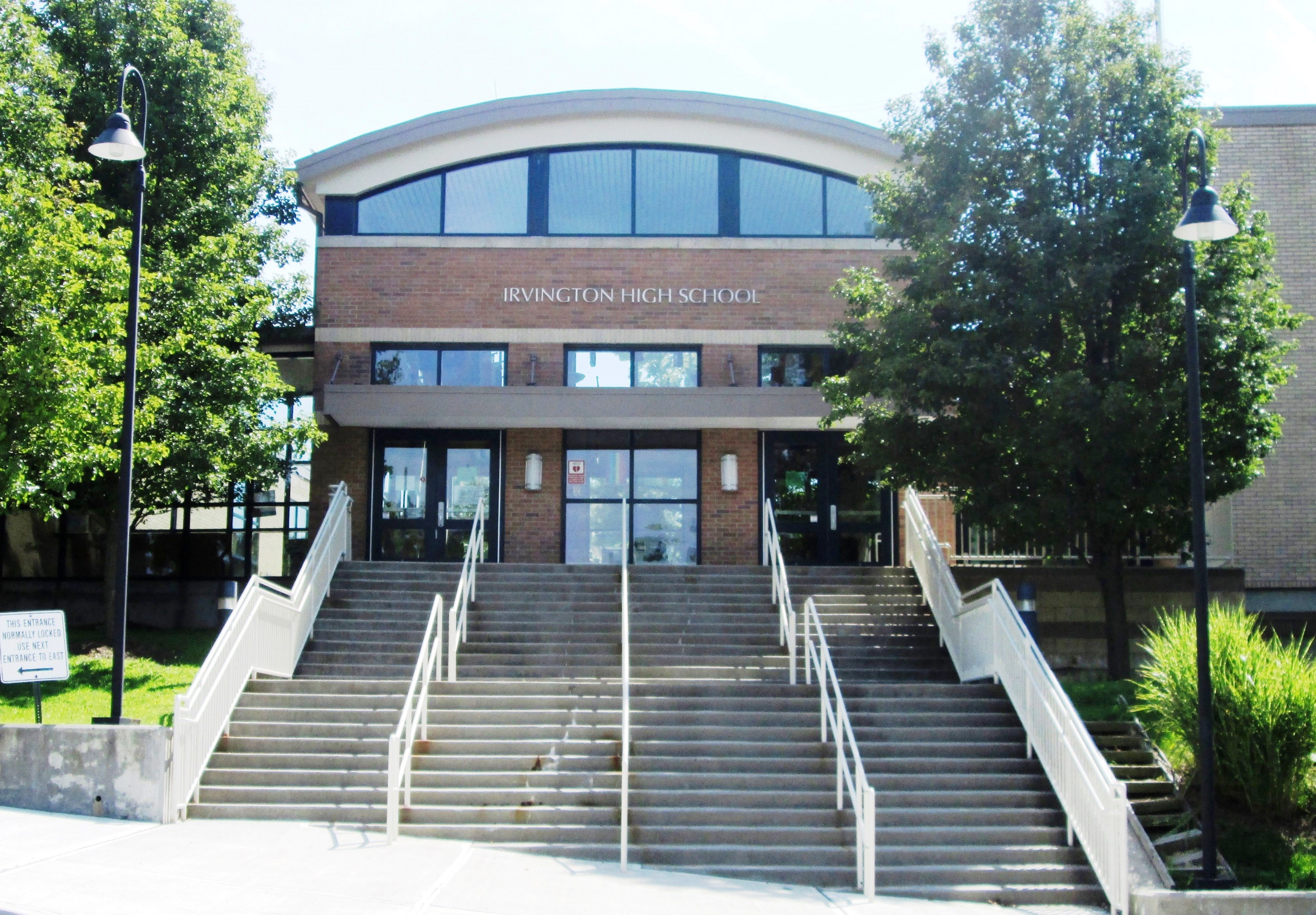 The entrance to Irvington High School on Heritage Hill Road in Irvington, New York. The Middle School shares the same campus.